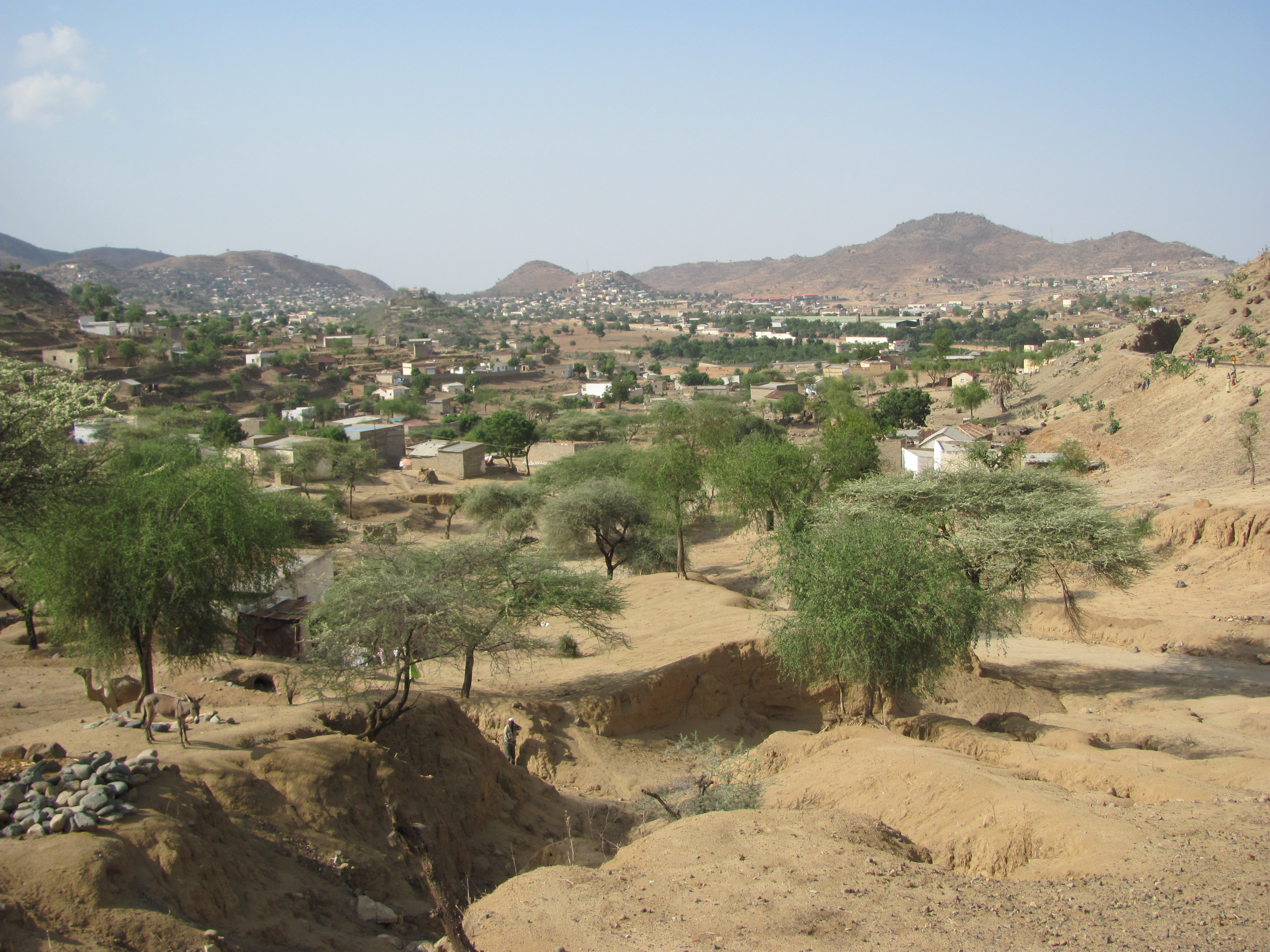 Ghinda, Eritrea